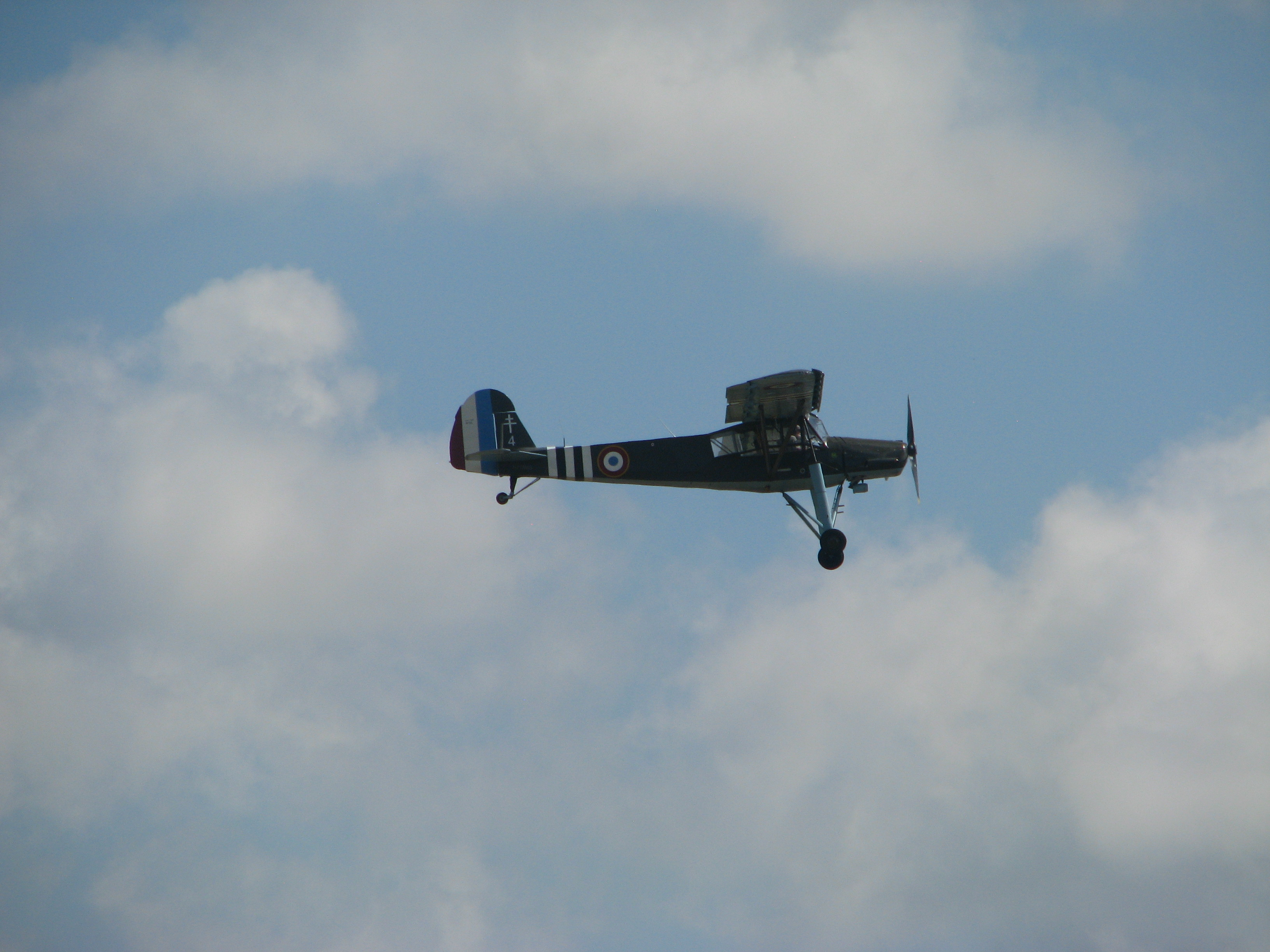 A Storch in French Markings, Wings Over Houston 2019